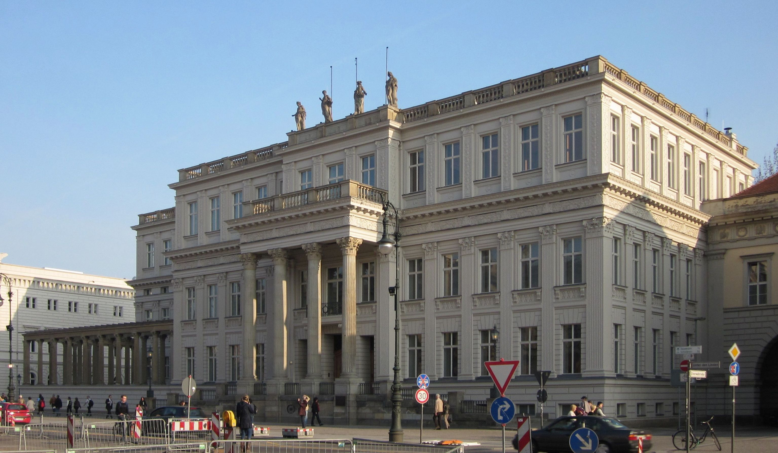 The Kronprinzenpalais (Crown Prince's Palace), Unter den Linden 5, in Berlin-Mitte. It was built from 1732 to 1732 to a design by Philipp Gerlach and, after destruction in WWII, was reconstructed by Richard Paulick from 1968 to 1969. It has been designated as a historic landmark.